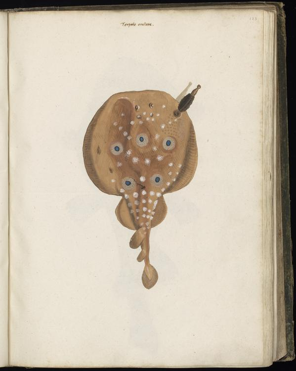 Common torpedo. Torpedo torpedo. Drawings collected by Felix Platter, to be used in Historiae animalium. The first volume contained drawings of fish, shellfish, crabs and other creatures of the sea. The drawings were made by several artists, mostly anonymous.